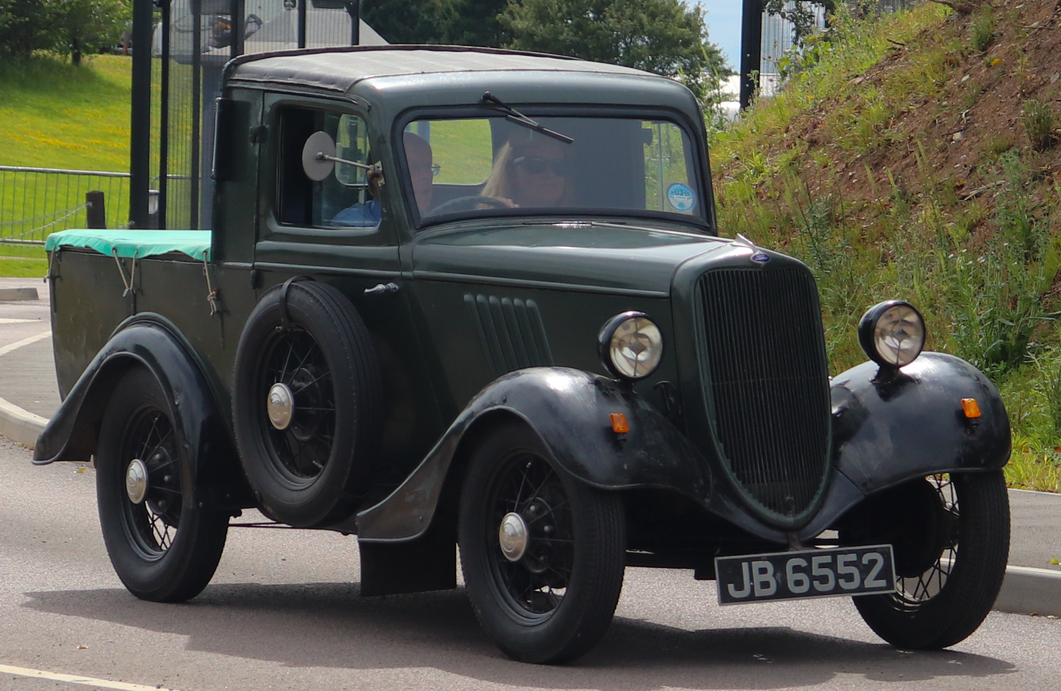 1935 Ford Model Y Pickup 930cc Taken at the British Motor Museum Old Ford Rally 2019, Gaydon